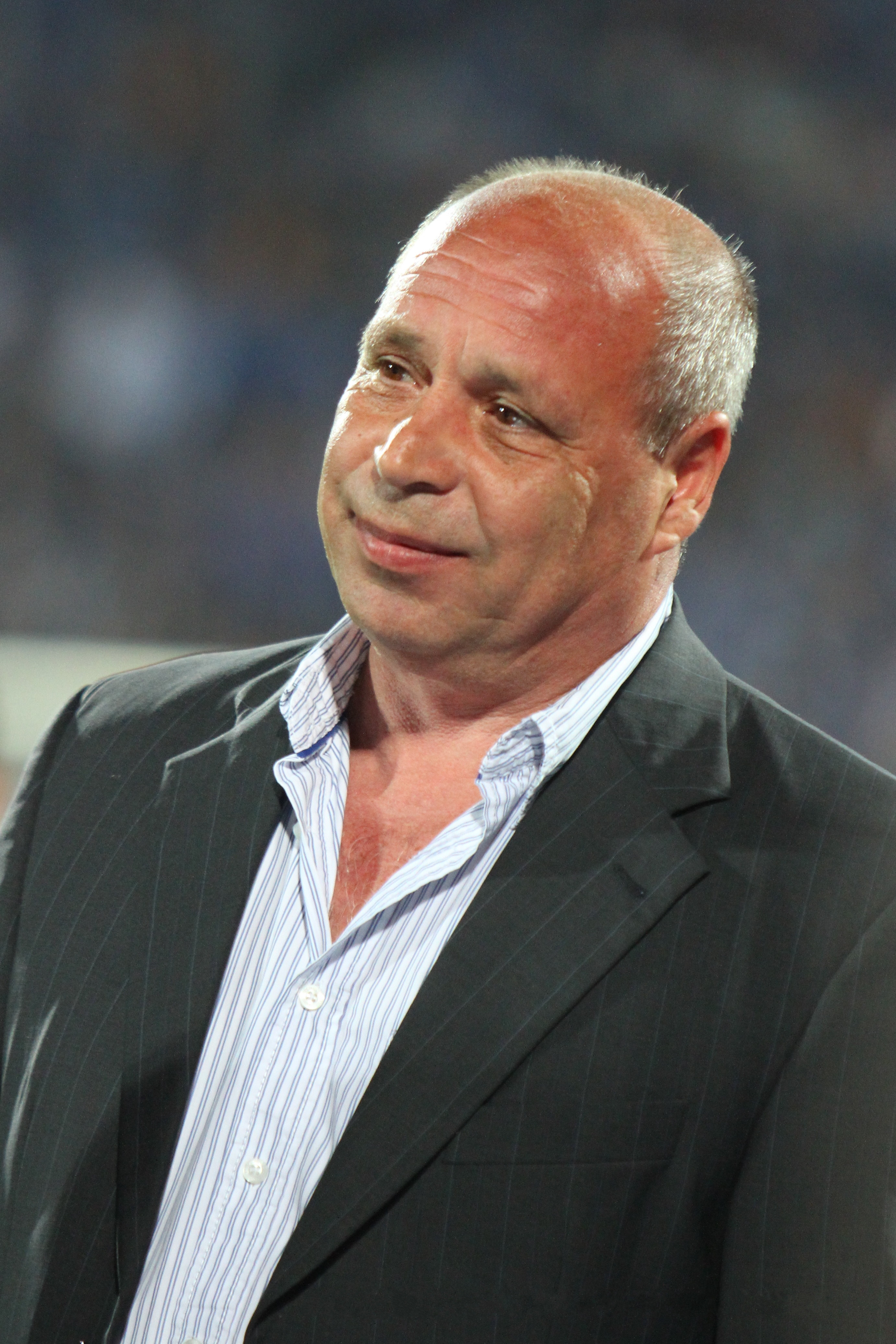 Yanko Rusev (Bulgarian: Янко Русев, born 1 December 1958) was an Olympic weightlifter for Bulgaria. In 1993 he was elected member of the International Weightlifting Federation Hall of Fame.[1]